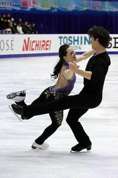 Tessa Virtue and Scott Moir at the 2016 NHK Trophy